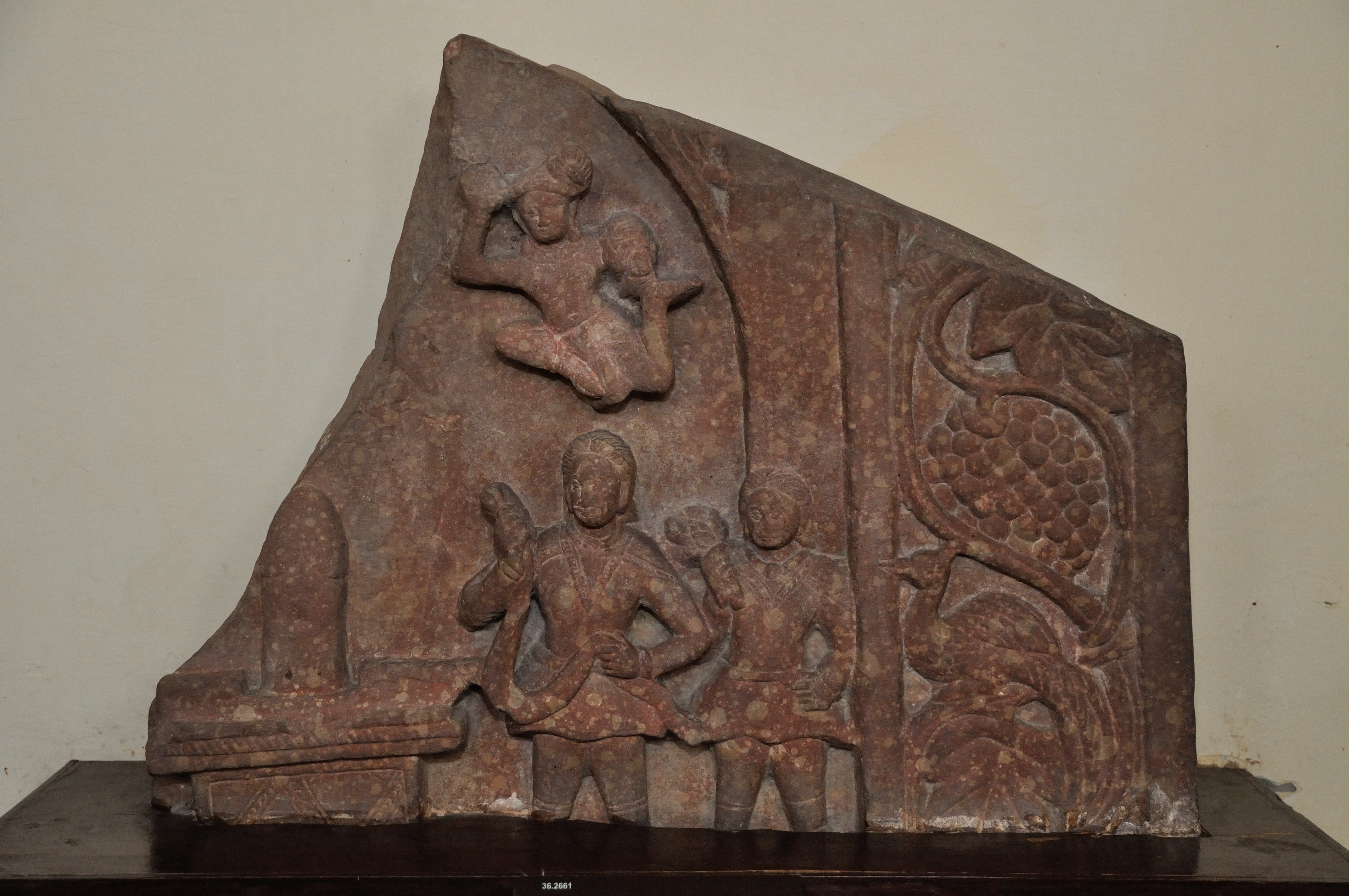 This artefact resides at the Government Museum, (hi: Rashtriya Sangrahalaya) formerly The Curzon Museum of Archaeology, Museum Road or Murari Lal Rajpal road, Dampier Nagar, Mathura, Uttar Pradesh, India. This museum is administrating by the State Government of Uttar Pradesh of India.